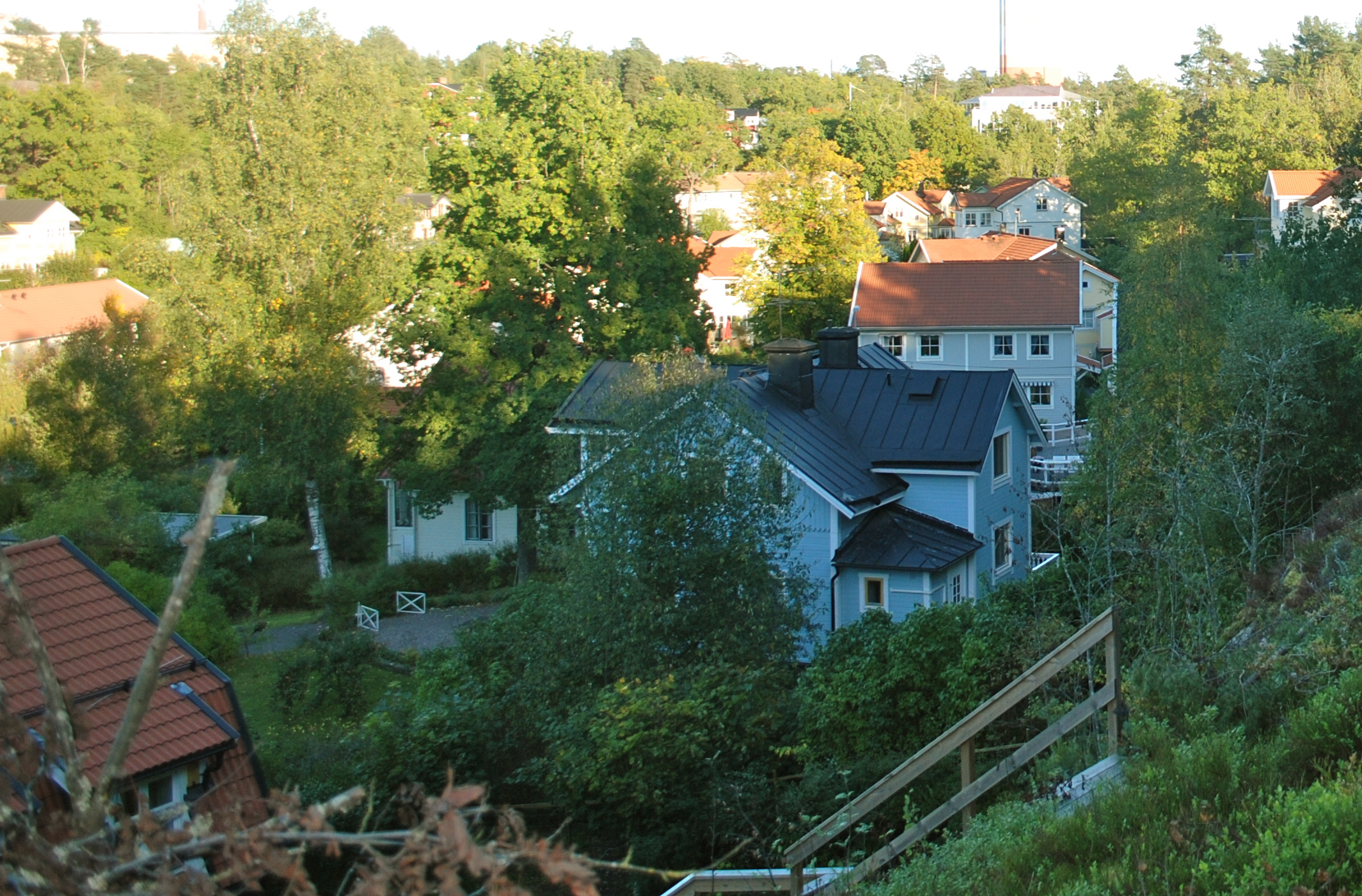 Vikdalen.